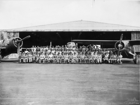 AWM Caption: Guildford, WA. ?1944. Group portrait of members of No. 7 Communications Unit RAAF (previously No. 35 Squadron at Pearce, WA) in front of an MK IVA Vultee Vengeance aircraft (left), an Avro Anson aircraft (centre) and an A71-14 Norseman aircraft (right), drawn up outside a hangar. (Donor F Craig)